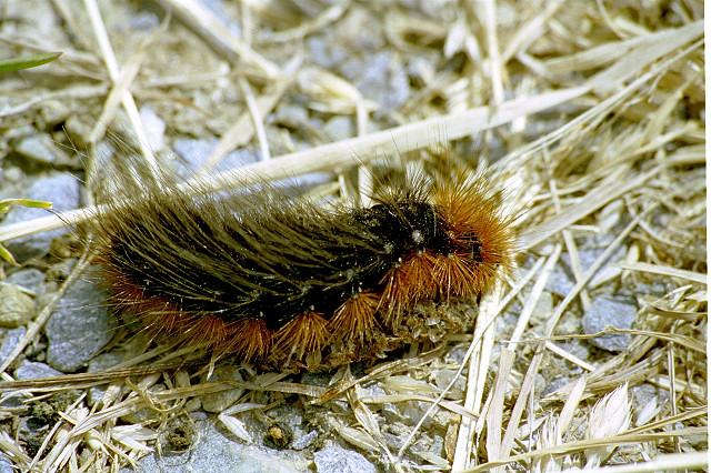 Picture taken in Commanster, Belgian High Ardennes . Species: Parasemia plantaginis caterpillar